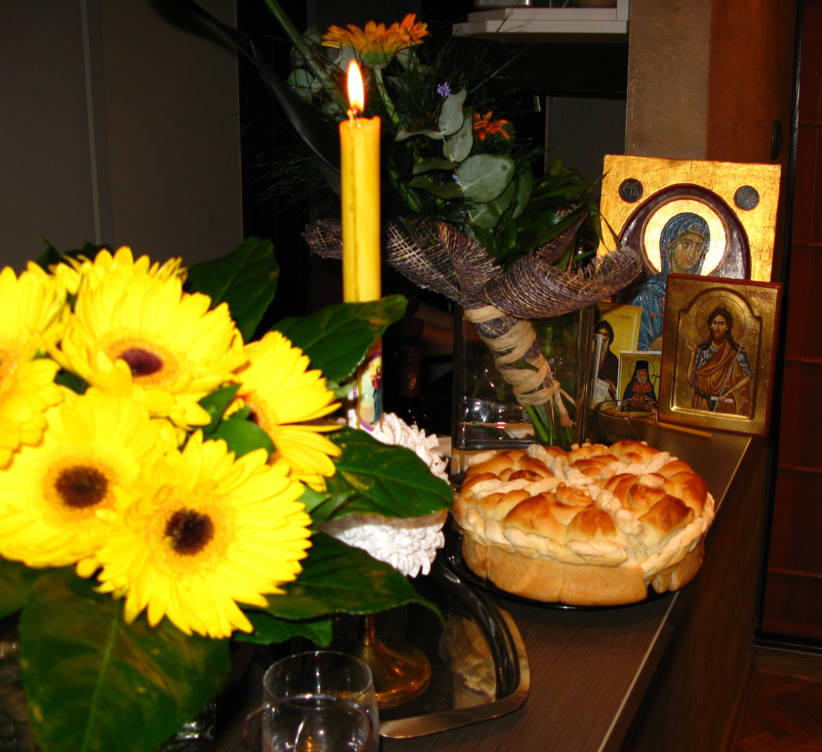 Celebrating Slava of st. Johns in Belgrade, Serbia.